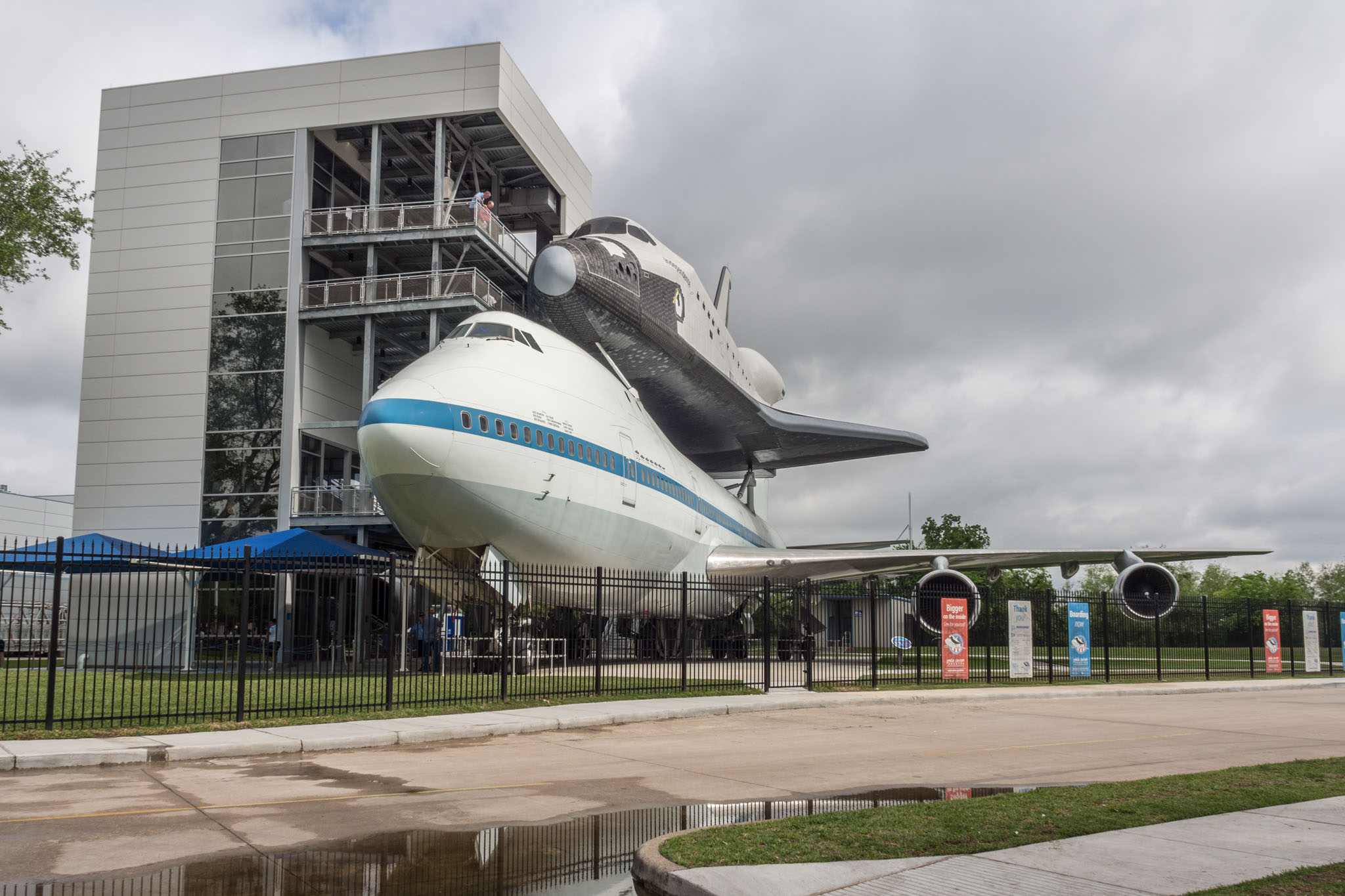 Shuttle Independence, a full-scale high fidelity replica of the Space Shuttle, and NASA 905 Shuttle Carrier Aircraft at Space Center Houston.